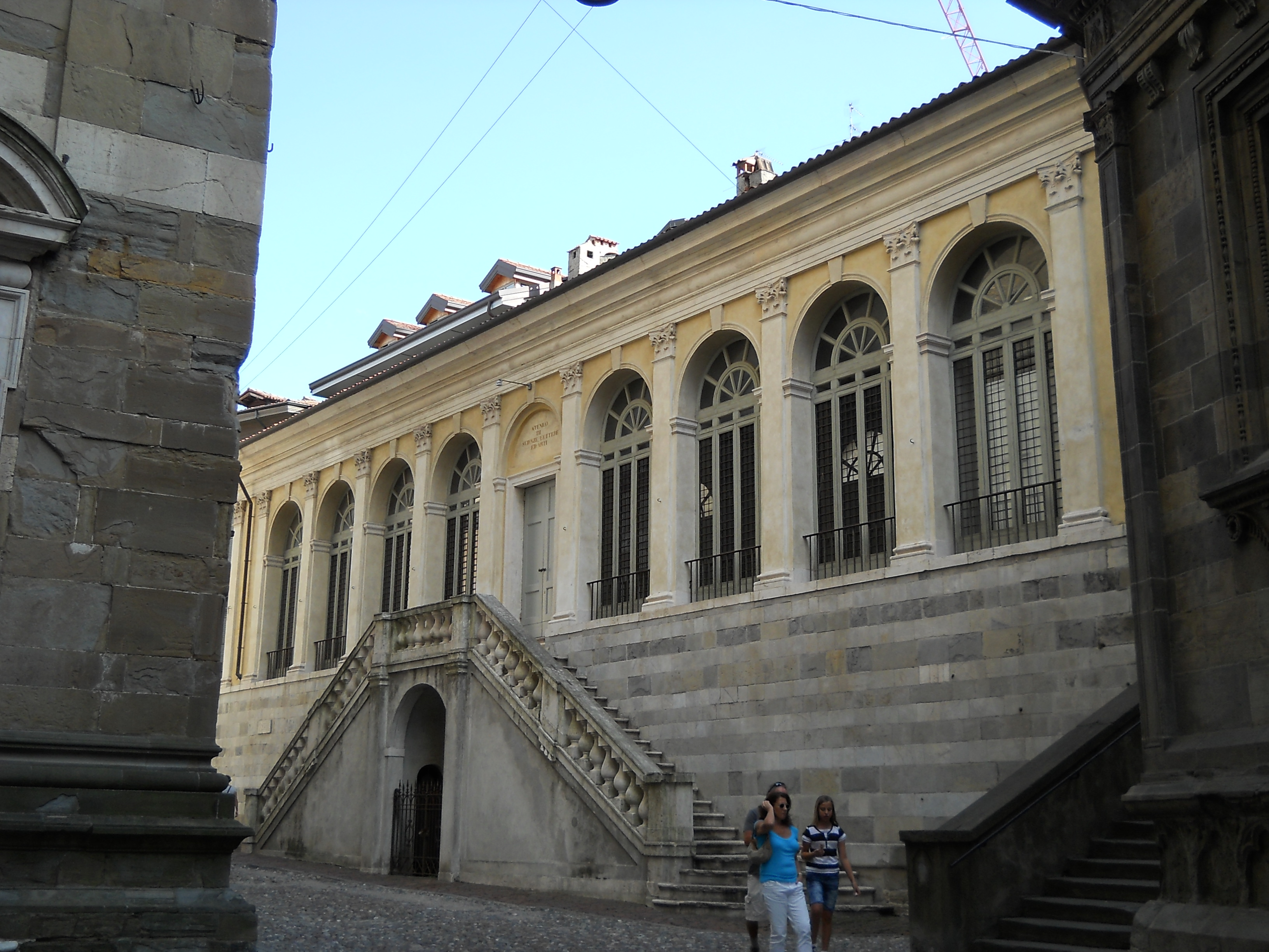 Historical seat of the Ateneo di Scienze Lettere ed Arti, Bergamo, Italy